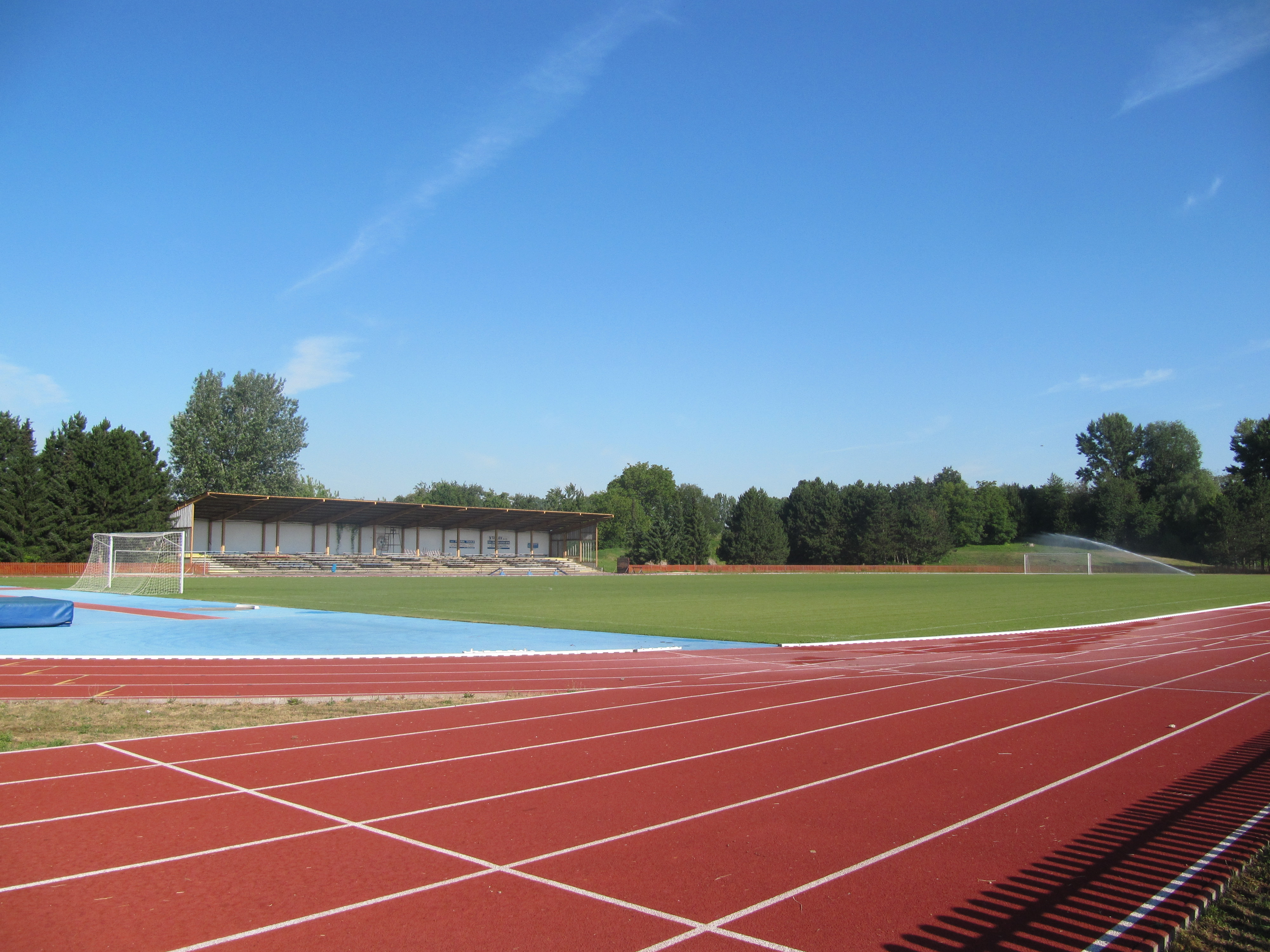 Hulín, Kroměříž District, Czech Republic. Football stadium of SK Spartak Hulín.